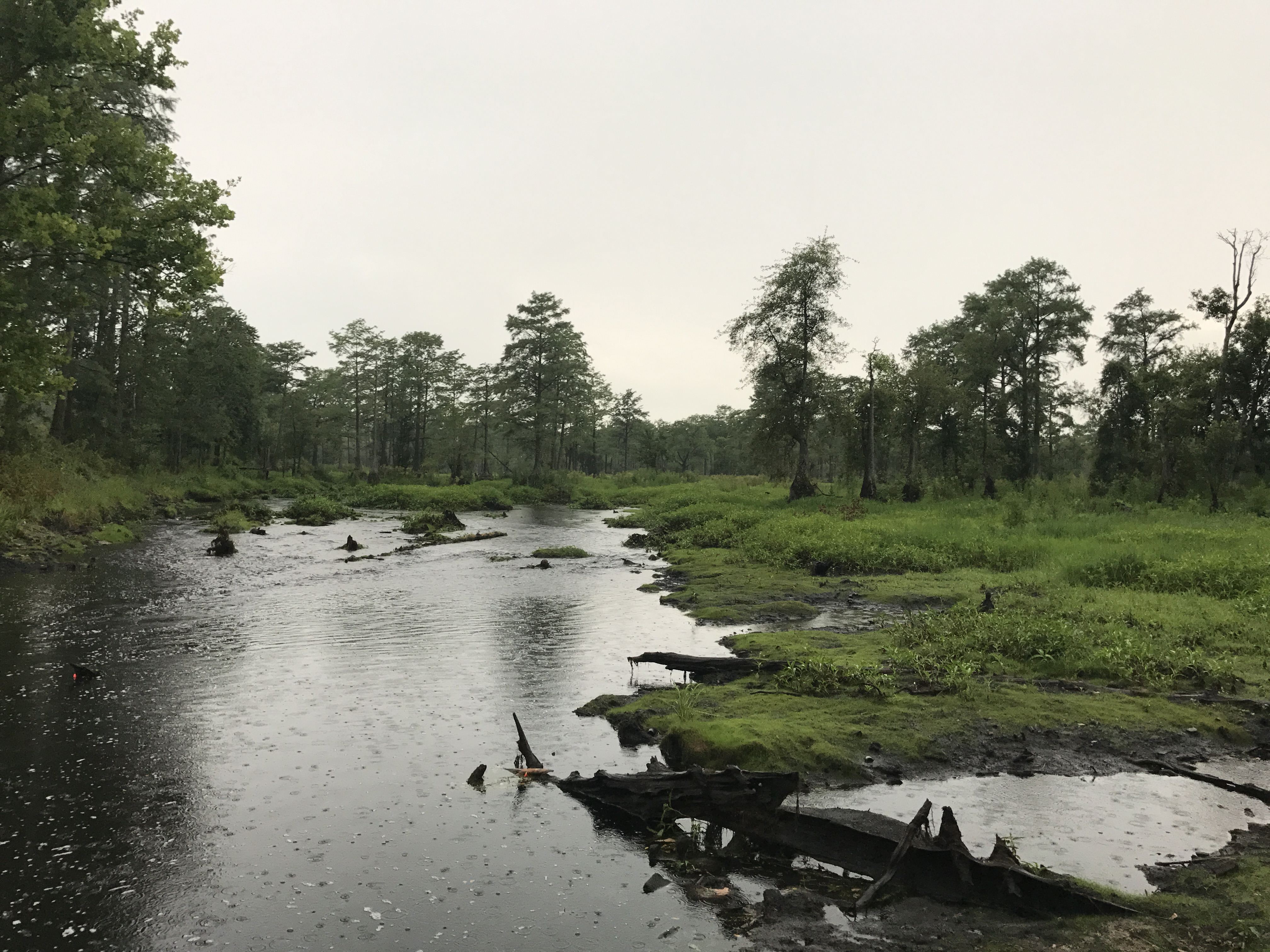 Hayes Pond, southwest of Maxton. Site of clash between KKK and Lumbee.